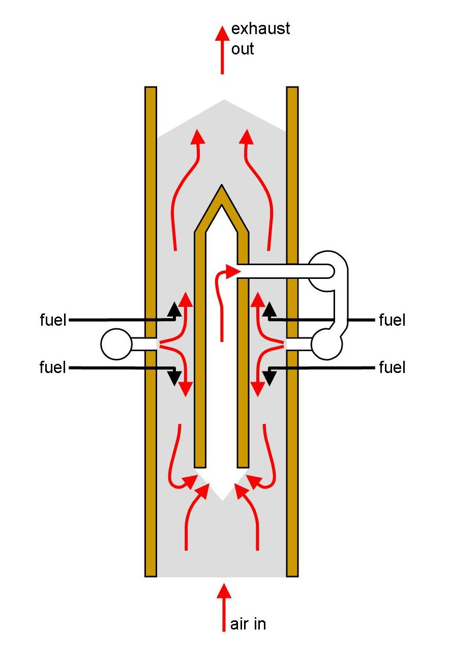 Simplified diagram of annular shaft lime kiln.